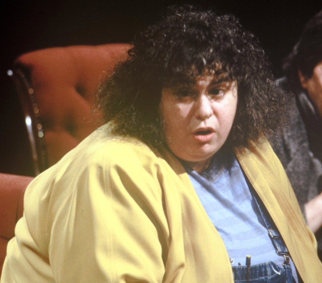 Andrea Dworkin appearing on the television programme After Dark on 21 May 1988